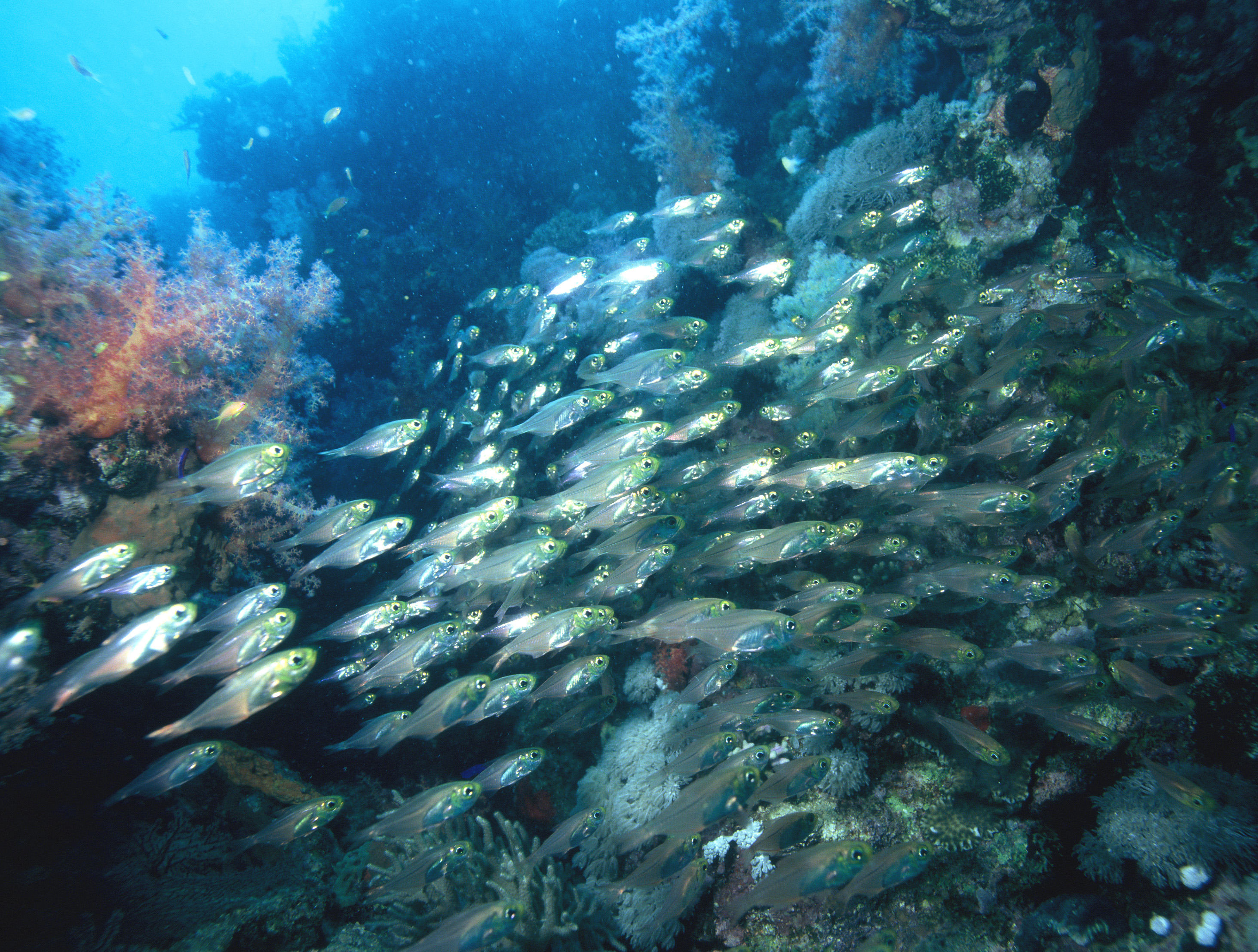 Glass fish (Parapriacanthus ransonneti) Mer Rouge